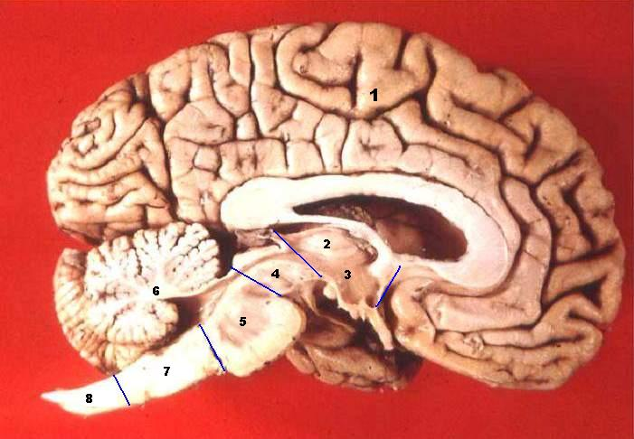 Human brain - midsagittal cut The divisions of the brain and the connection of the brain to the spinal cord is viewed here in a midsagittal cut of the brain (Half-Brain). Cerebrum Thalamus Hypothalamus Mesencephalon - Midbrain Pons Cerebellum Medulla oblongata Medulla spinalis The Brainstem (Mesencephalon + Pons + Medulla oblongata) is connected caudally with the spinal cord and rostrally with the Thalamus. (font: arial black, size: 14 and 10)